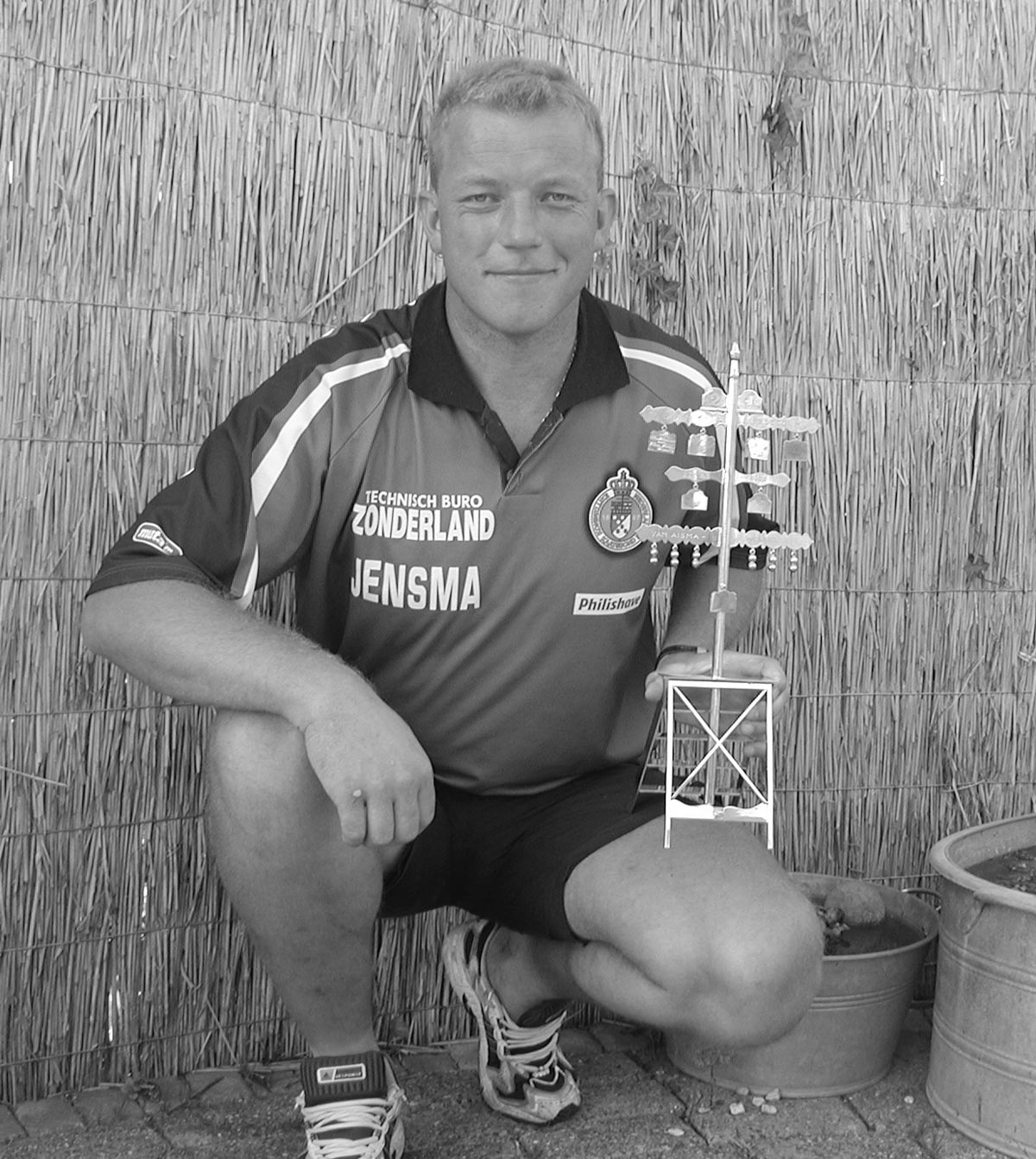 Klaas Anne Terpstra, Frisian handball player